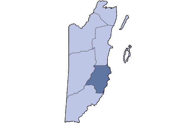 District of Stann Creek in Belize